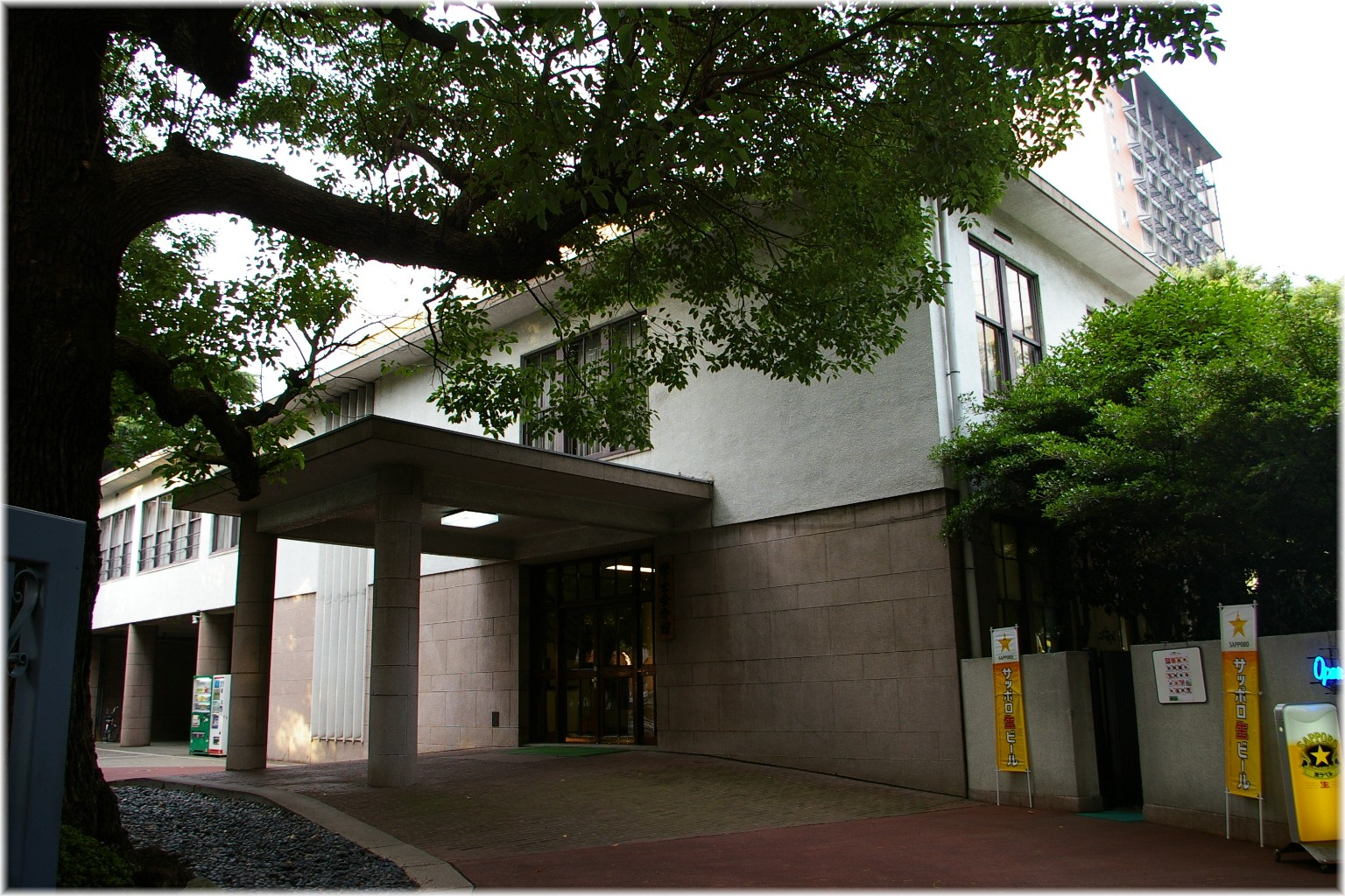 The annex of Gakushi-Kaikan (Tokyo Uni).